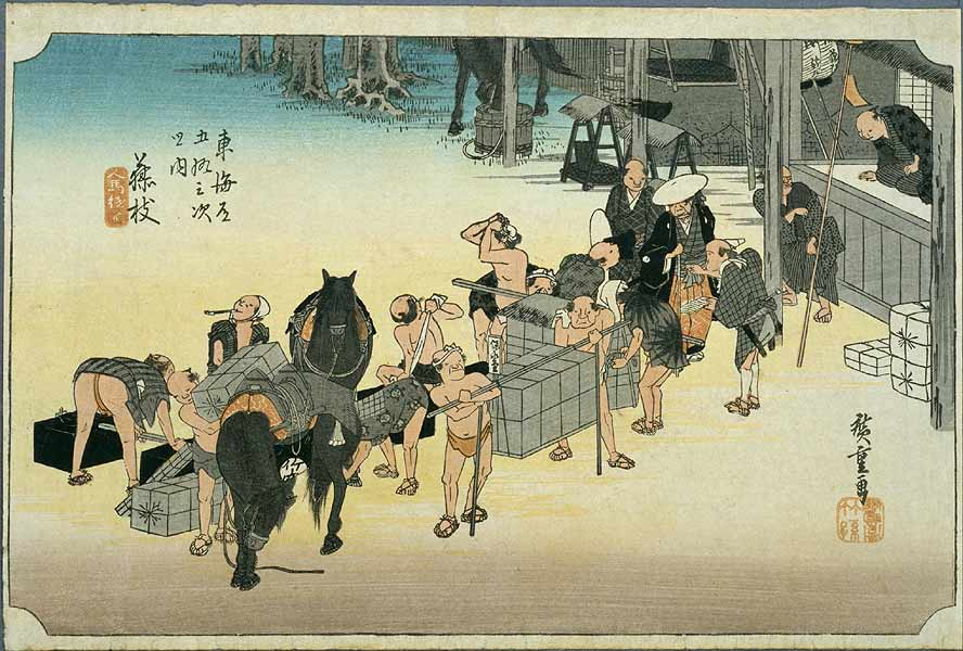 Fujieda on the Tokaido, ukiyo-e prints by Hiroshige